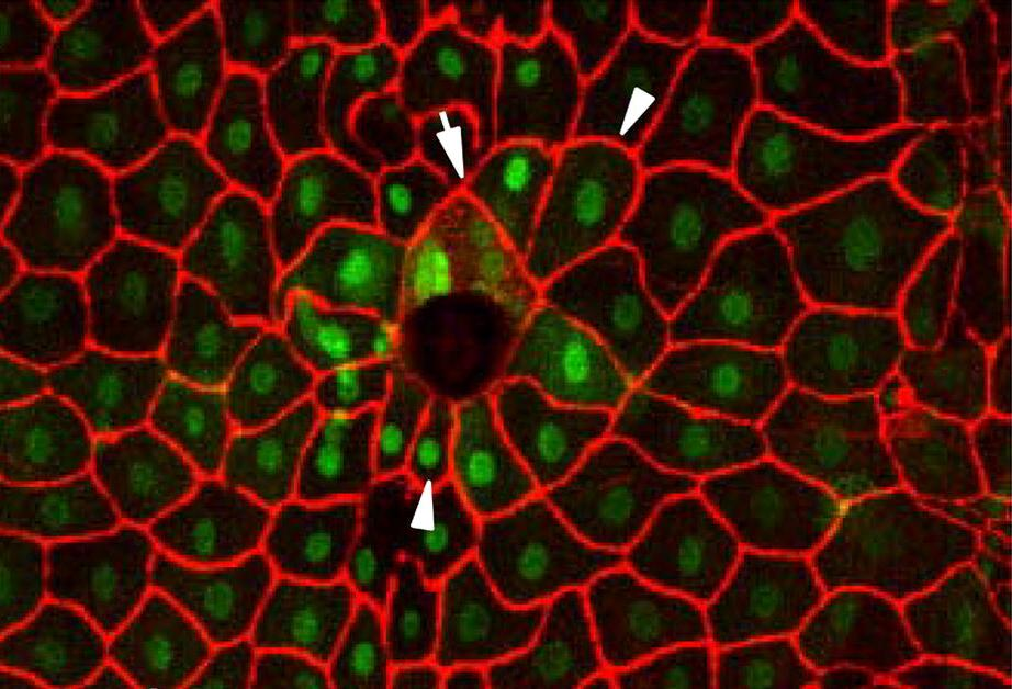 wound healing in Drosophila. Cropped